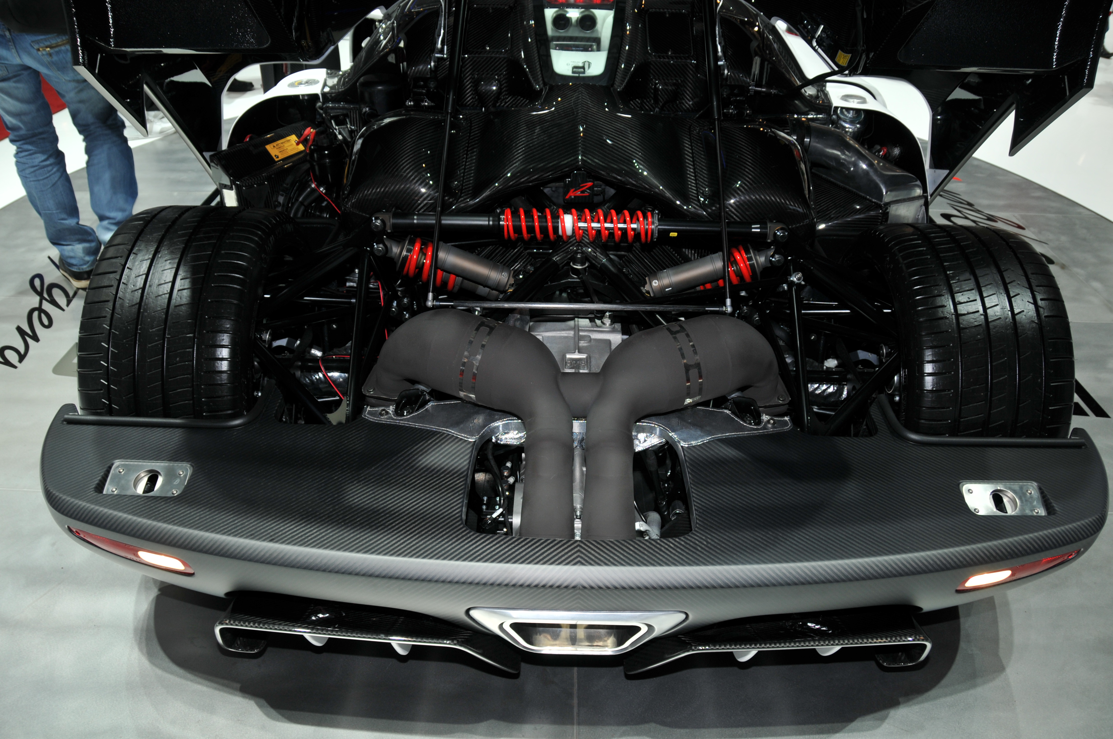 The Agera R was presented at the 2011 Geneva Motor Show